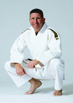 US Judo Player, Olympian, and World Champion Michael Swain